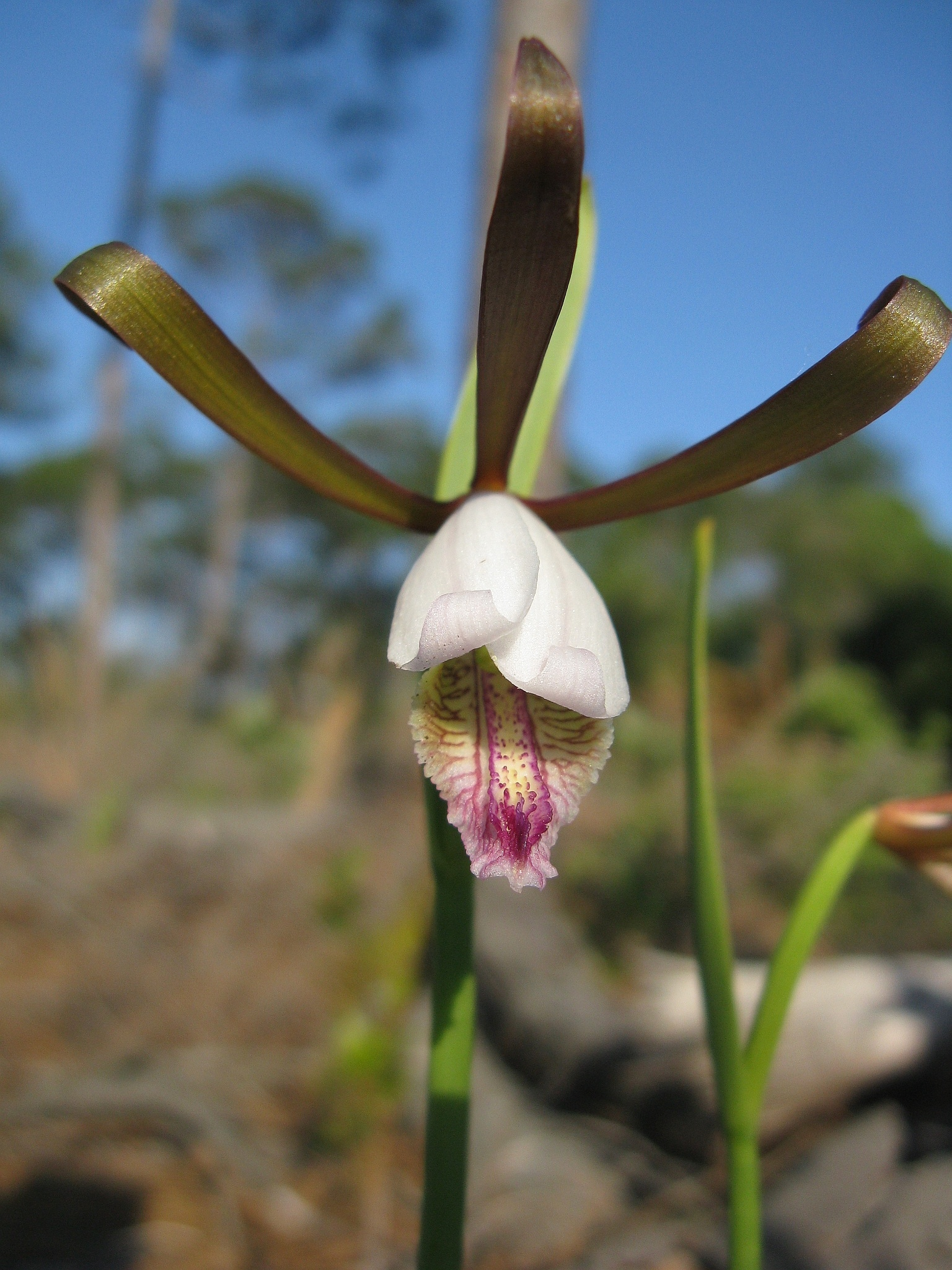 Cleistesiopsis divaricata. Orchid growing near Carrabelle, Florida